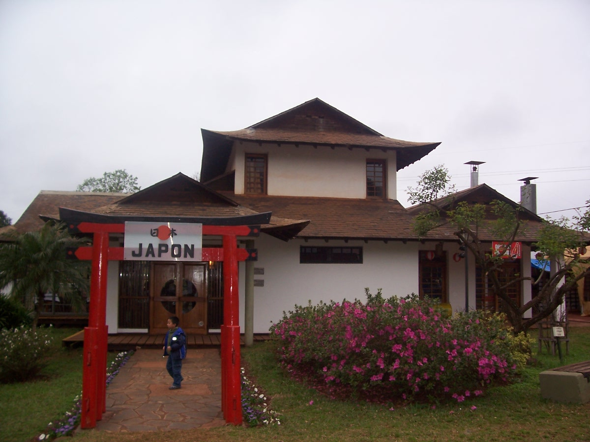 Picture of the Japanese House, in the Park of the Nations, within the framework of XXVI the National Immigrant's Festival, in Oberá, Misiones, Argentina.